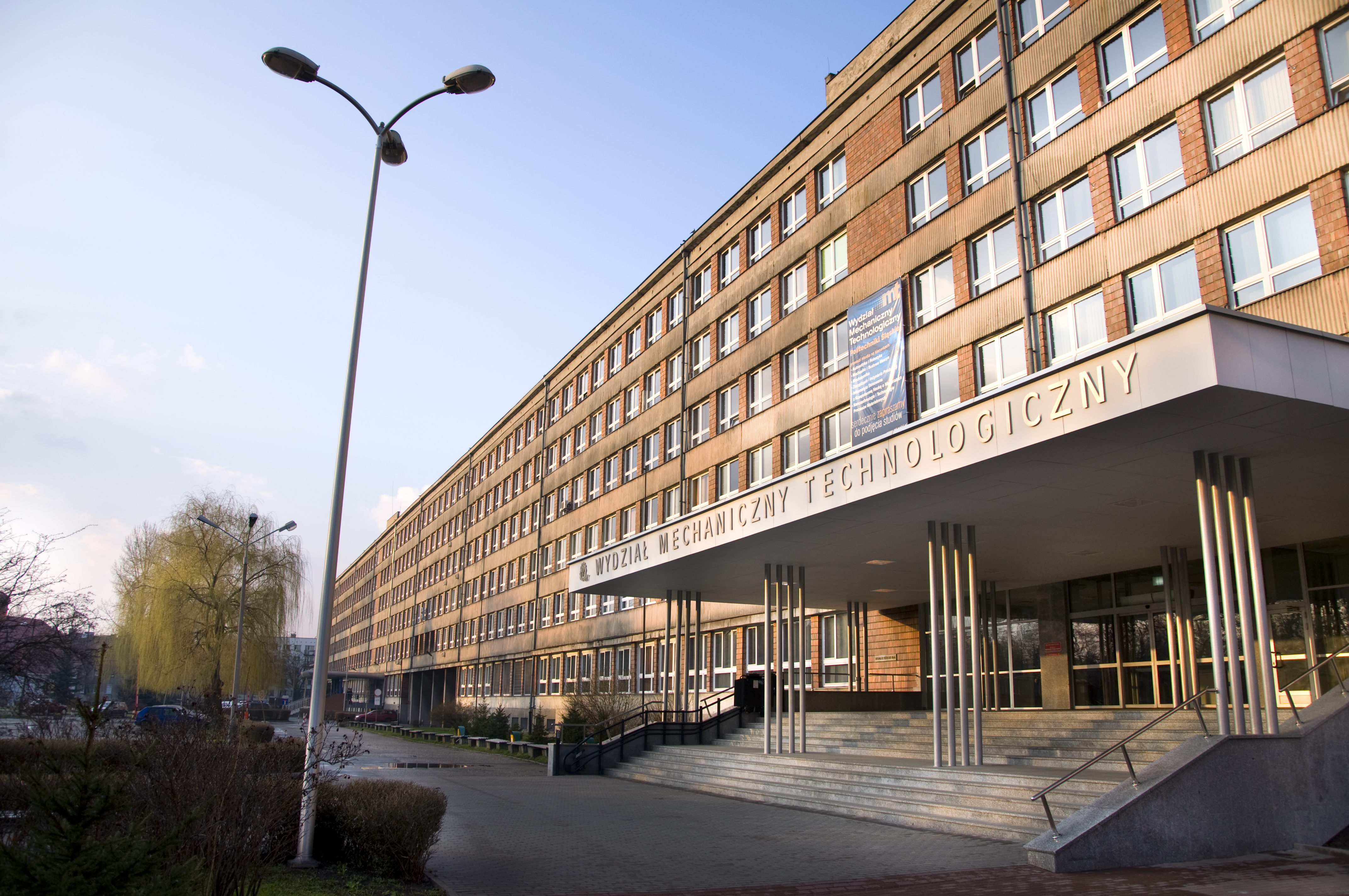 Silesian University of Technology - Faculty of Mechanical Engineering